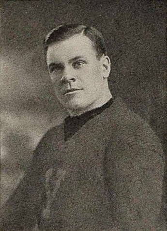 Image of Scotty Neil, punter and end for Vanderbilt University's football team.